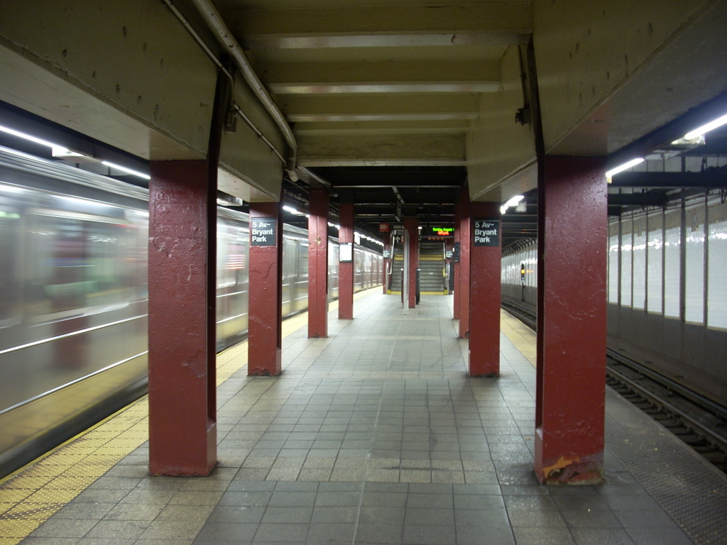 5th Avenue on the 7 line with a train leaving on the left.